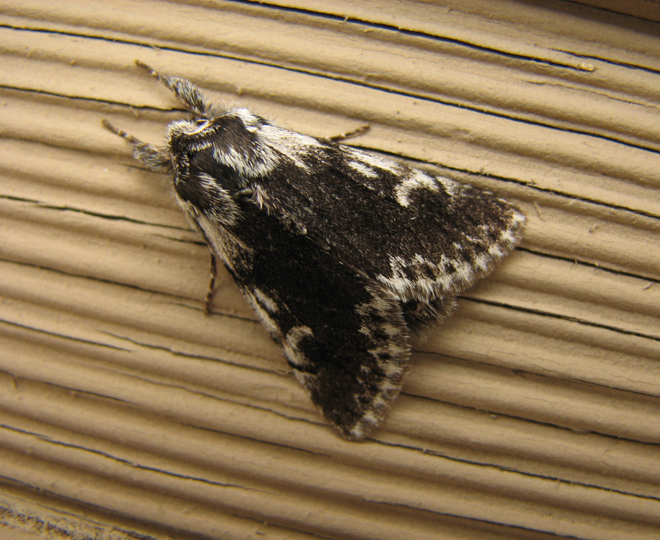 Pleromelloida conserta Camp Cascade, Marion County, Oregon, USA. [1]